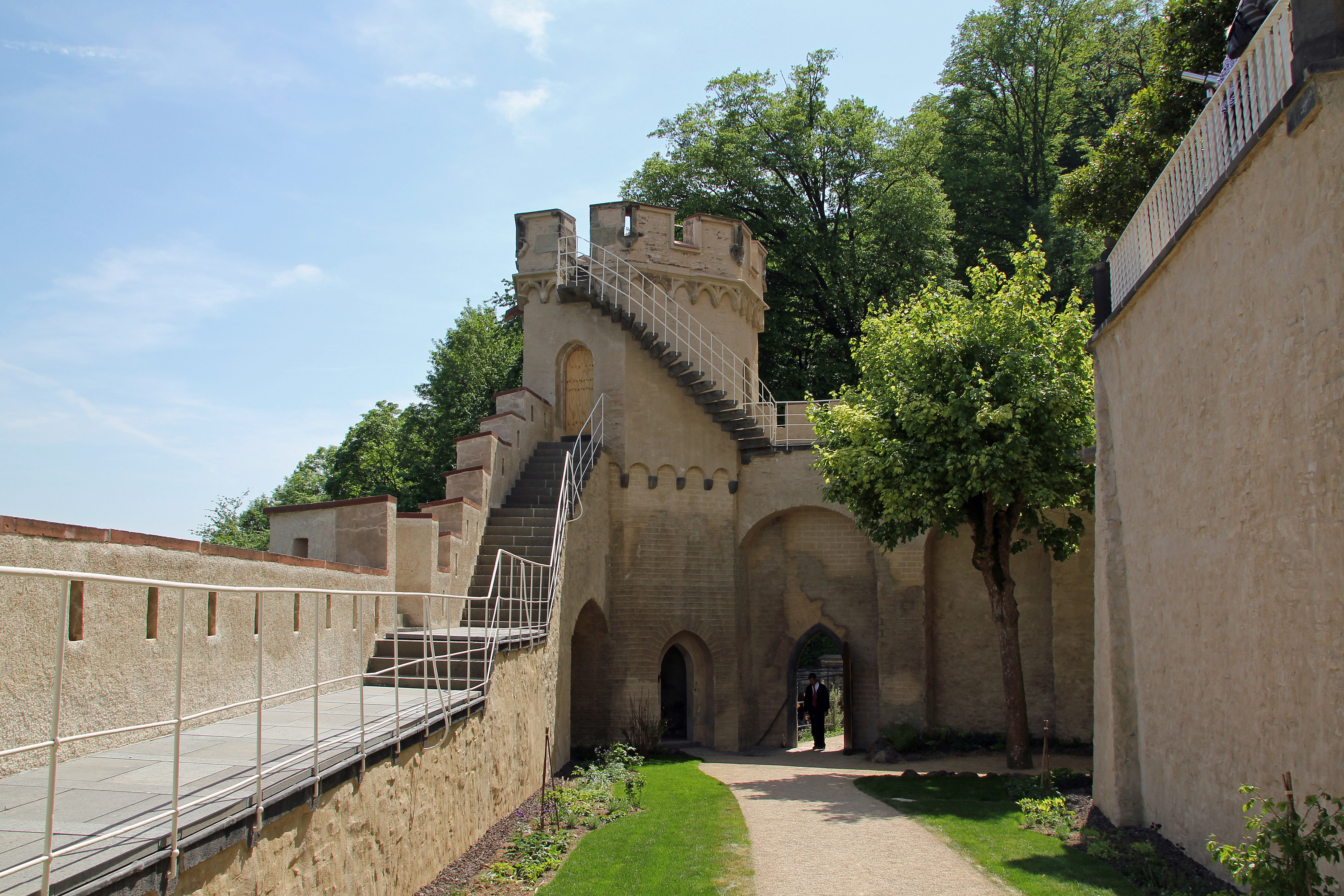 Federal Horticultural Show 2011 in Koblenz - Stolzenfels Castle